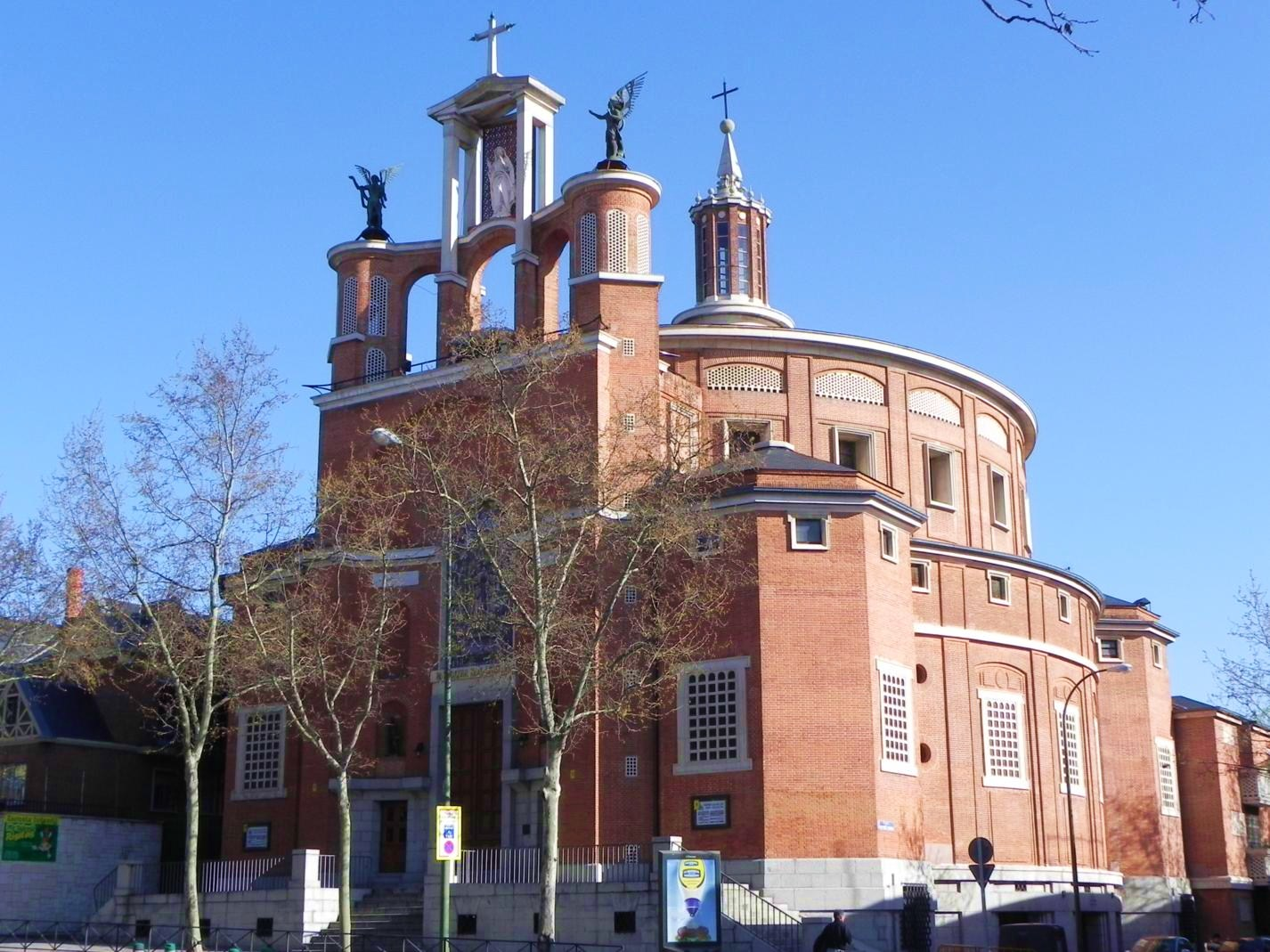 View of Saint Augustinus' Church in Madrid (Spain).